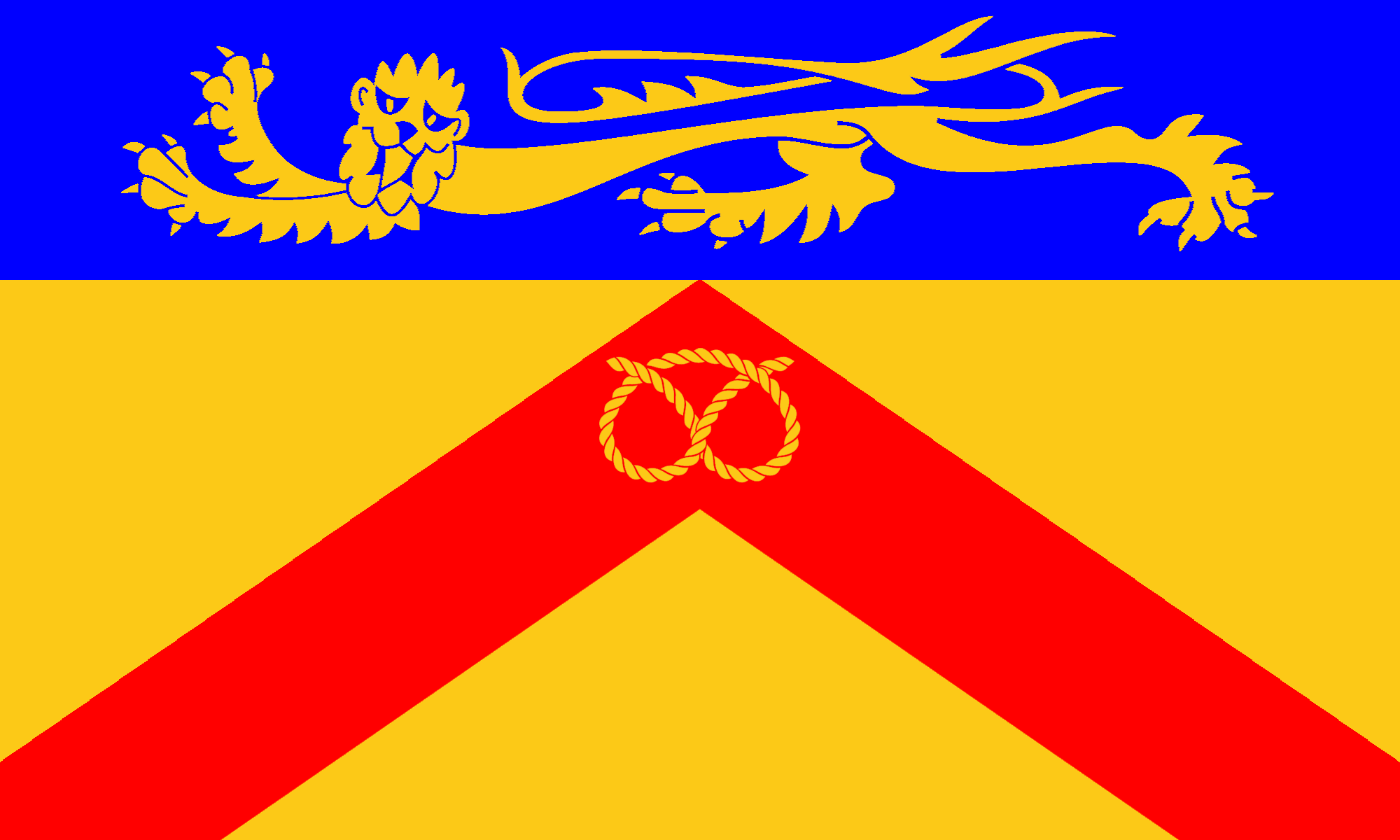 A banner of arms of Staffordshire County Council.